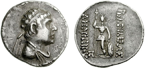 Coin of the Baktrian king Demetrios II